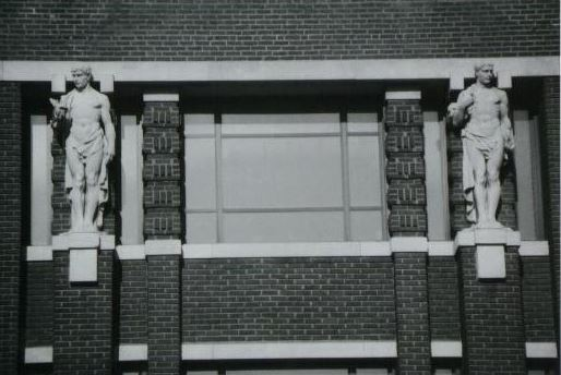 This is a cropped snip of a photo already uploaded to commons under a CC BY-SA 4.0 license. The previously uploaded file is: File:Bio and Chem Atlas figures for Jensen Salsbery Laboratories.jpg